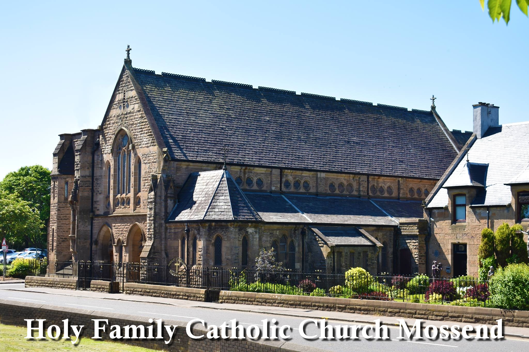 Holy Family Catholic Church Mossend, built in 1884, designed by Pugin and Pugin, Westminister.